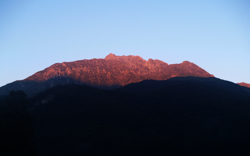 The Arbizon in the Central Pyrenees at the break of dawn, viewed from the tiny hamlet of Pailhac, at the opposite side of the Aure valley.